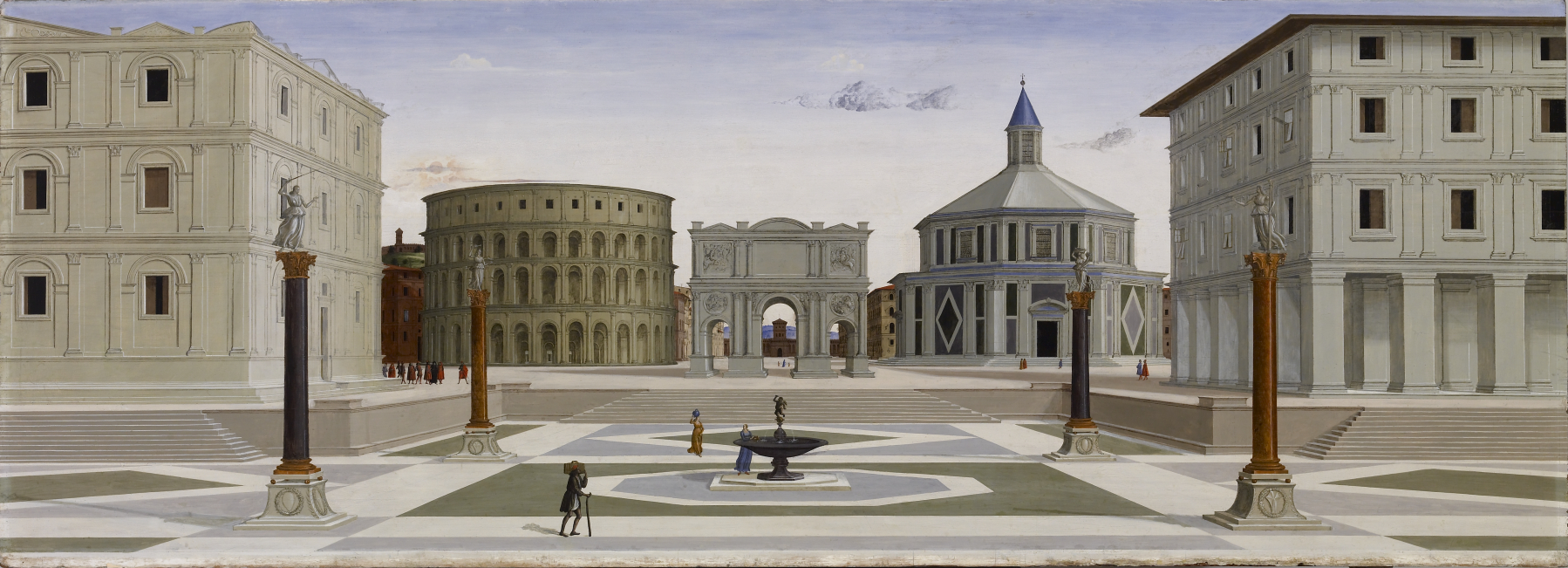 This extraordinary panel exemplifies Renaissance ideals of urban planning, respect for Greco-Roman antiquity, and the mastery of central perspective. The imaginary city square features a Roman arch typically erected as a commemoration of military victory at its center. As a whole, the painting offers a model of the architecture and sculpture that would ideally be commissioned by a virtuous ruler who cares for the welfare of the citizenry. The amphitheater is modeled on the Colosseum in Rome. The octagonal structure to the right, covered with colored stone, suggests the medieval Baptistery in Florence, which in the 15th century was thought to be a reused Roman temple. Together they reflect the importance of security, religion, and recreation in a well-regulated city and the value of Roman ideals in urban design. The private residences at either side are also dignified with classical architectural elements. Classicizing elements also appear in the foreground. Statues, set on columns in the Roman style, represent virtues of a good ruler, including Justice with her sword and scales and Liberality (generosity) with a cornucopia. This view and two related paintings (now in Urbino and Berlin) were apparently commissioned for the palace of Duke Federico da Montefeltro of Urbino. Set into the woodwork at shoulder height or higher, "The Ideal City" would have seemed like a window onto another, better world. The illusion of a space that extends out from our own is achieved using a mathematical perspective system developed in Florence. The space is defined in terms of the viewer's own angle of vision: the receding lines establishing spatial relationships converge at a central point in the city gate visible beneath and beyond the Roman arch.